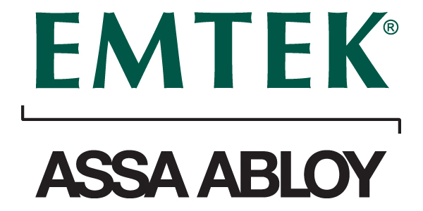 Official logo for Emtek ASSA ABLOY